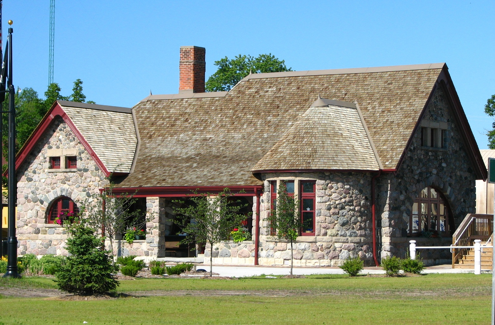 The historic Michigan Central Railroad Depot in Standish, Michigan. Listed on the US National Register of Historic Places (NRHP #91000215). The building is a Registered Michigan State Historic Site.